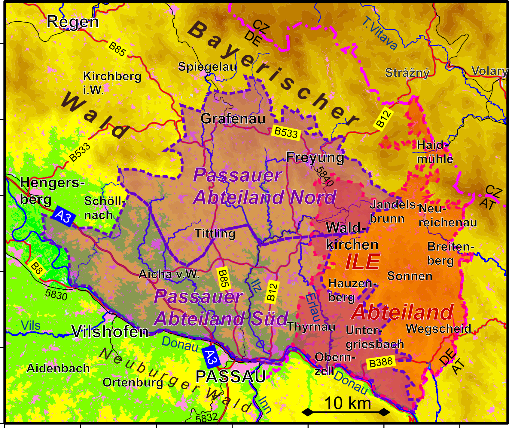 The map shows the position of the Integrated Rural Development Abteiland in orange and of the landscapes Passauer Abteiland southern part (40800) and northern part (40801) in purple. The terrain elevation and selected topographical features are displayed in the background.